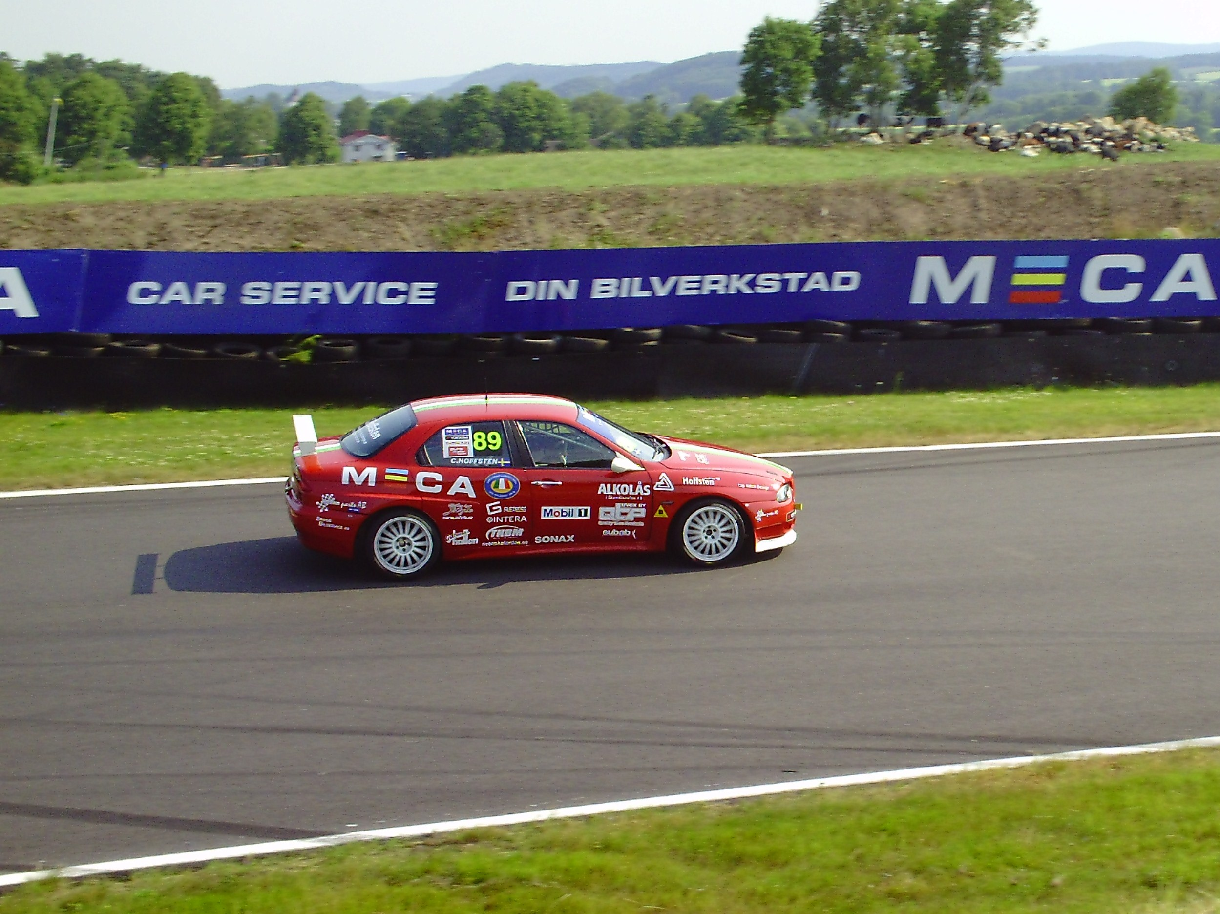 Claes Hoffsten in an Alfa Romeo 156 in Swedish Touring Car Championship at Falkenbergs Motorbana 2010.